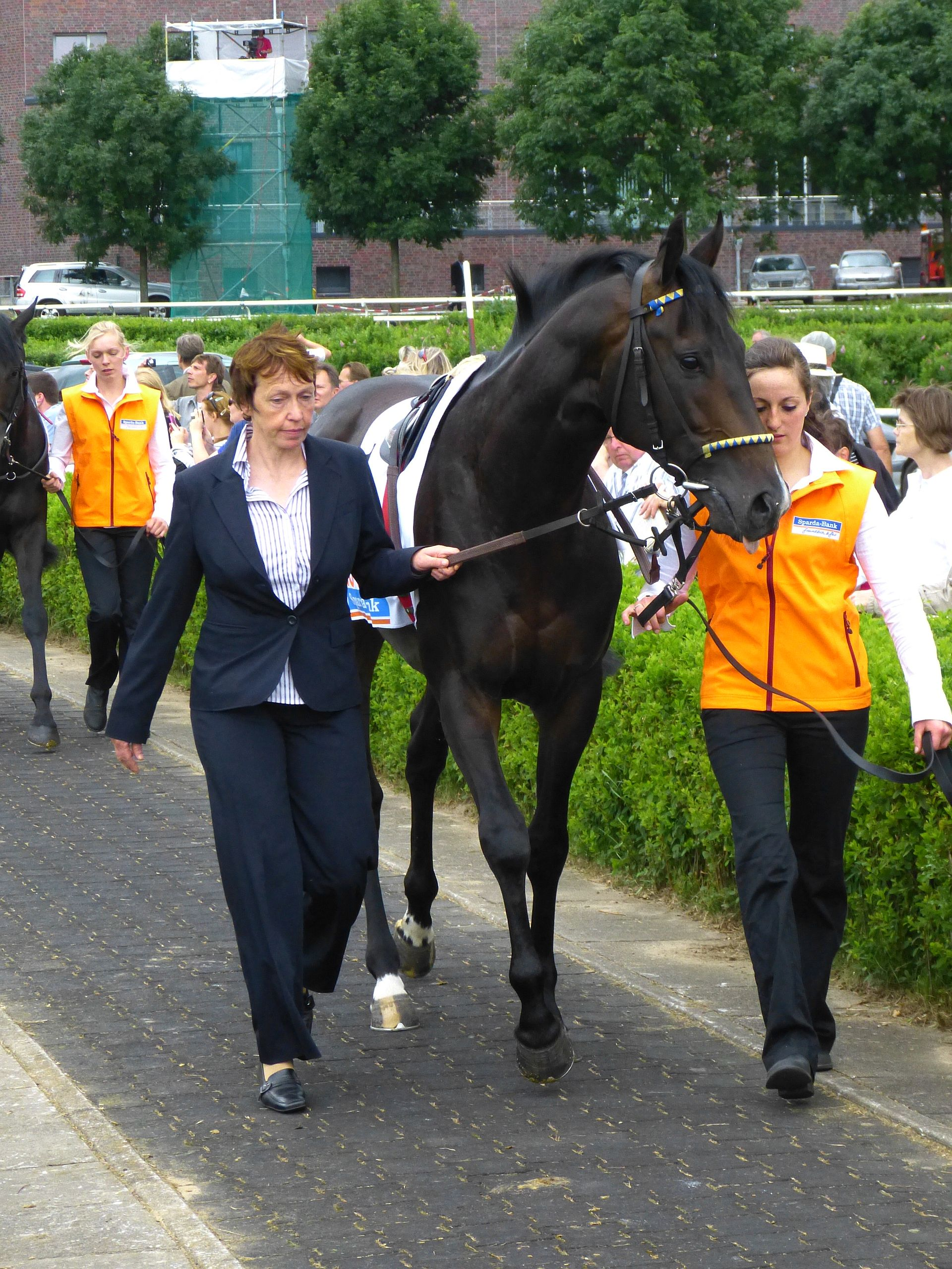 Novellist in the Paddock of the Deutsche Derby